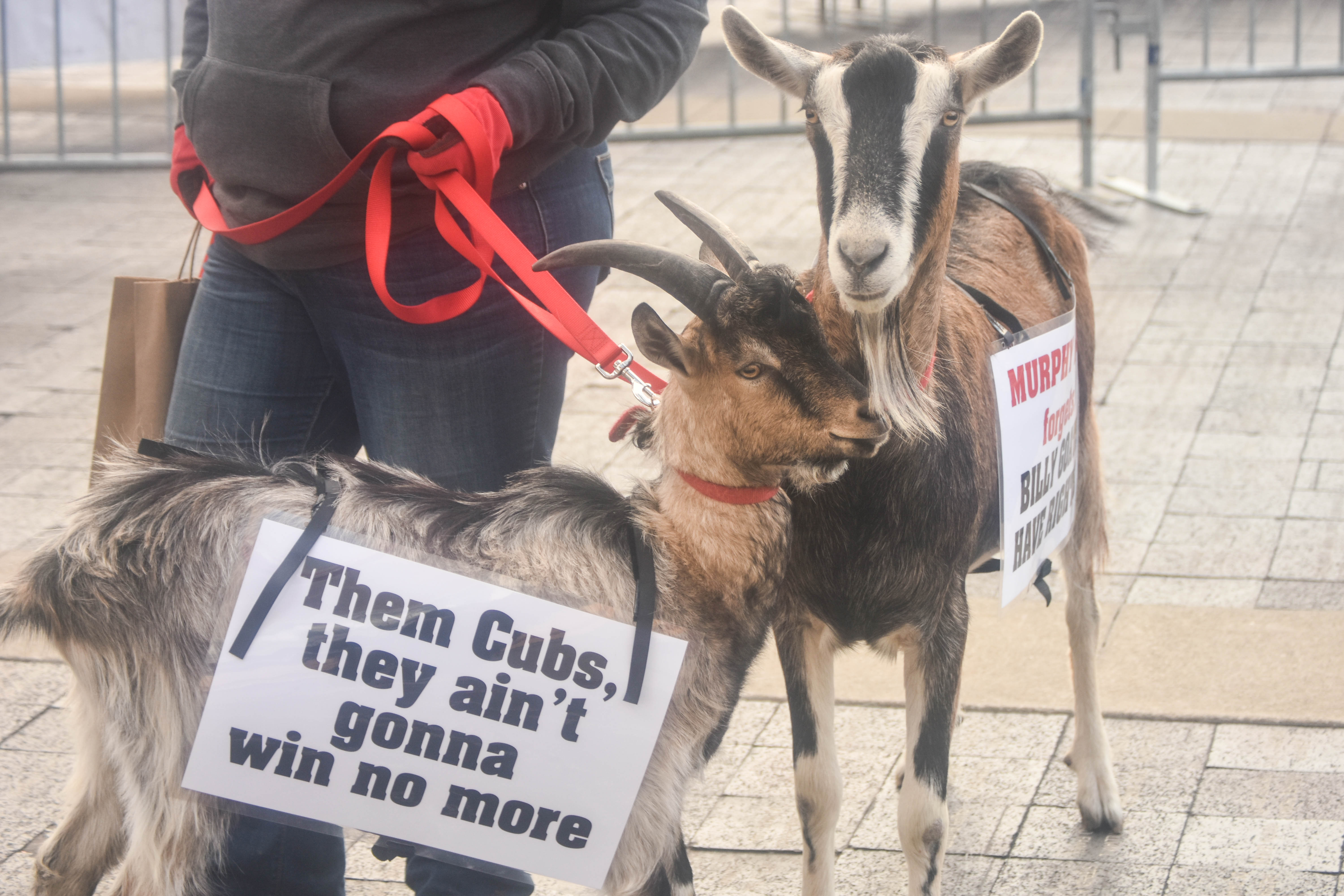 Cleveland Indians fans brought goats to Progressive Field before 2016 World Series Game 1, in hopes of continuing the Curse of the Billy Goat